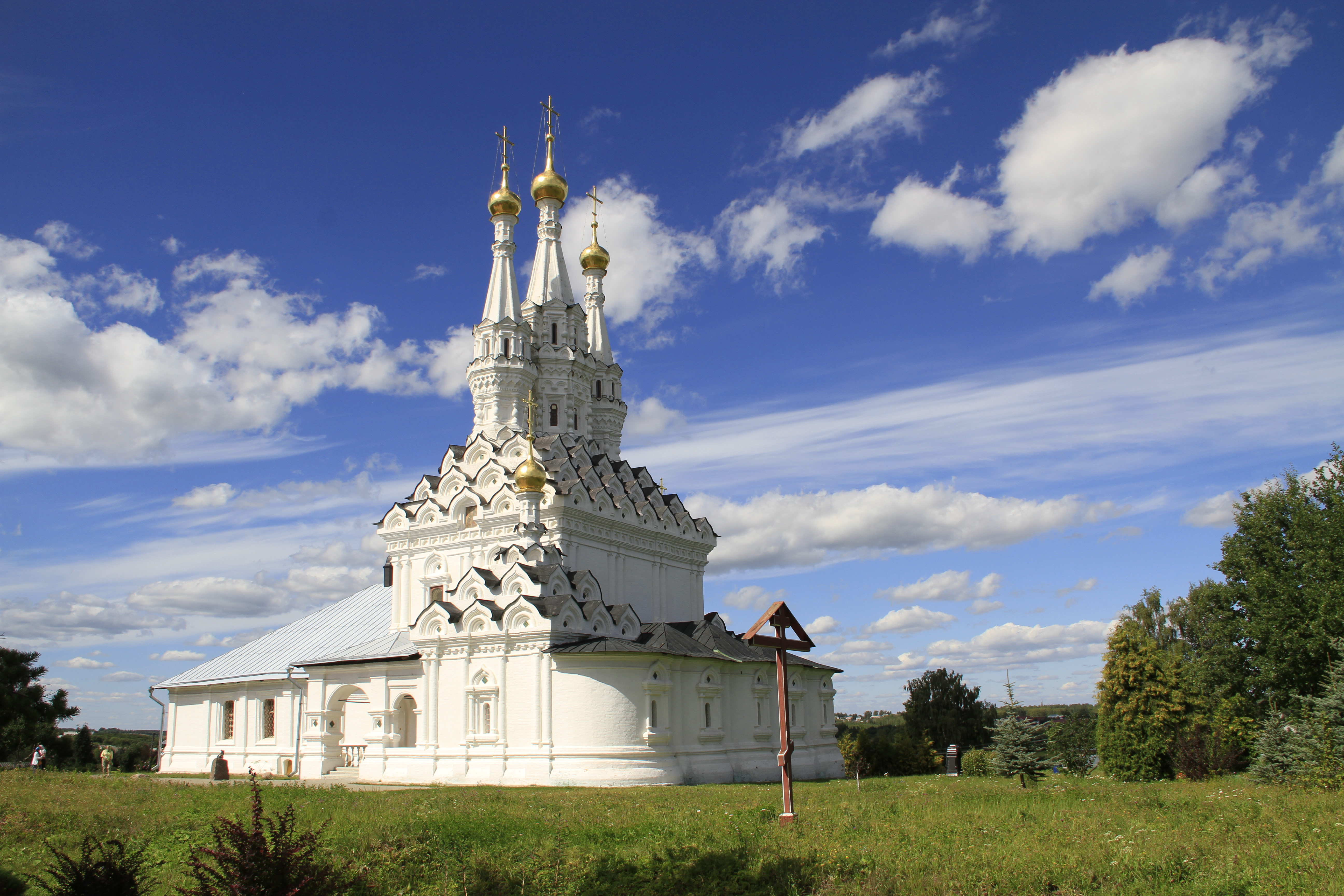 Vyazma. Saint John Baptist Monastery. Church of Hodegetria